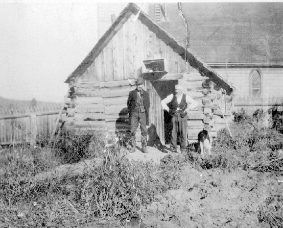 Photo taken before 1914 Photograper Unknown BC Archives #B-01334 [1]